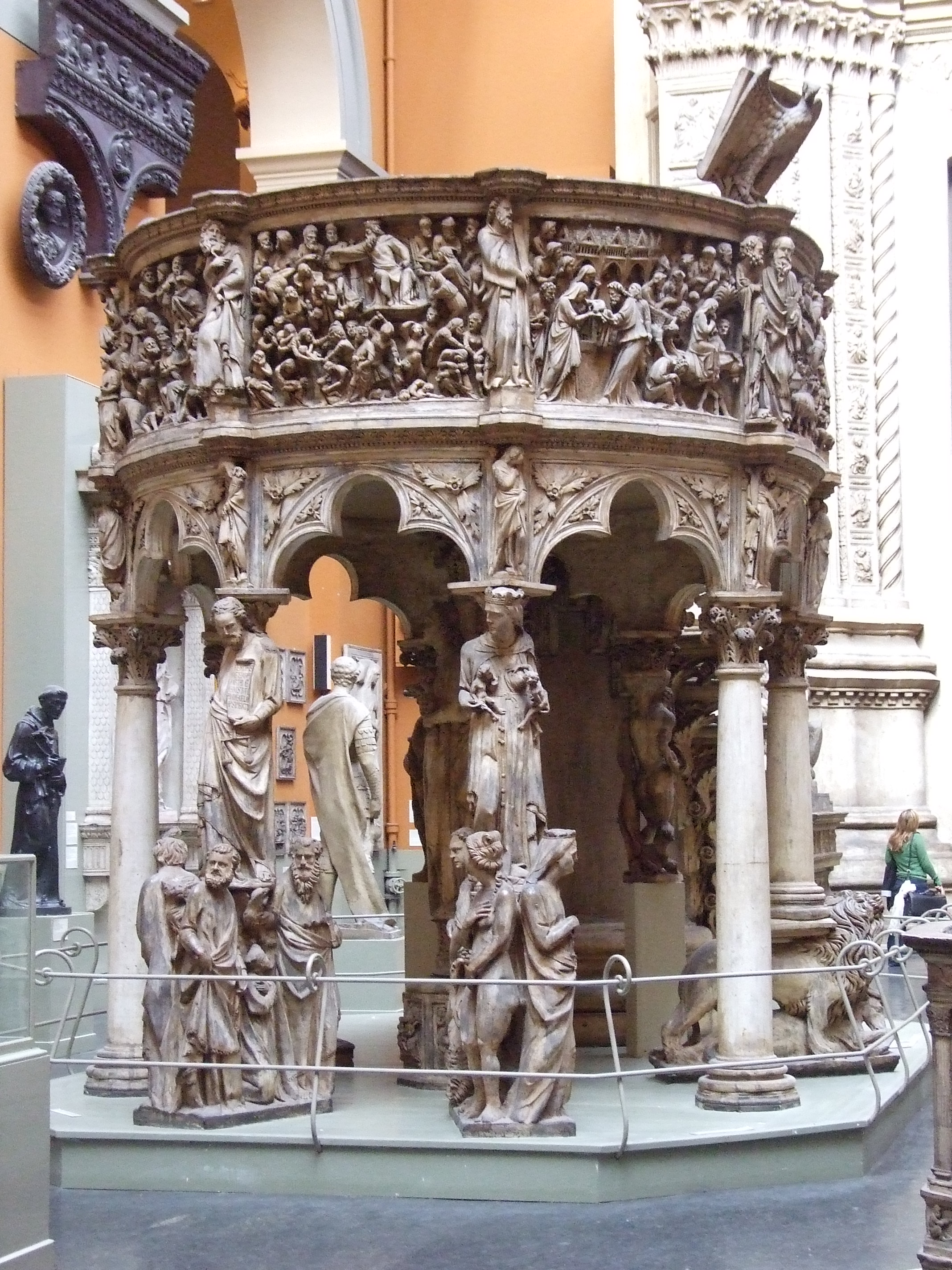 Pulpit by Giovanni Pisano. Cast after marble original in the Cathedral, Pisa on the left side of the nave, before the crossing. Cast in the Victora and Albert Museum Cast Court, London.